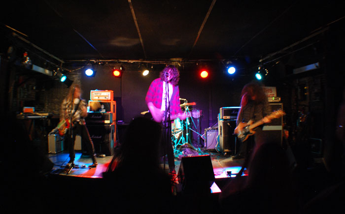 Violent Soho performing at the Mercury Lounge in New York City on 2 December 2009